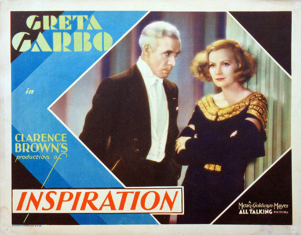 Lobby card for the 1931 film, Inspiration. The item has no copyright markings on it as can be seen in the links above. At bottom left is Country of origin USA.